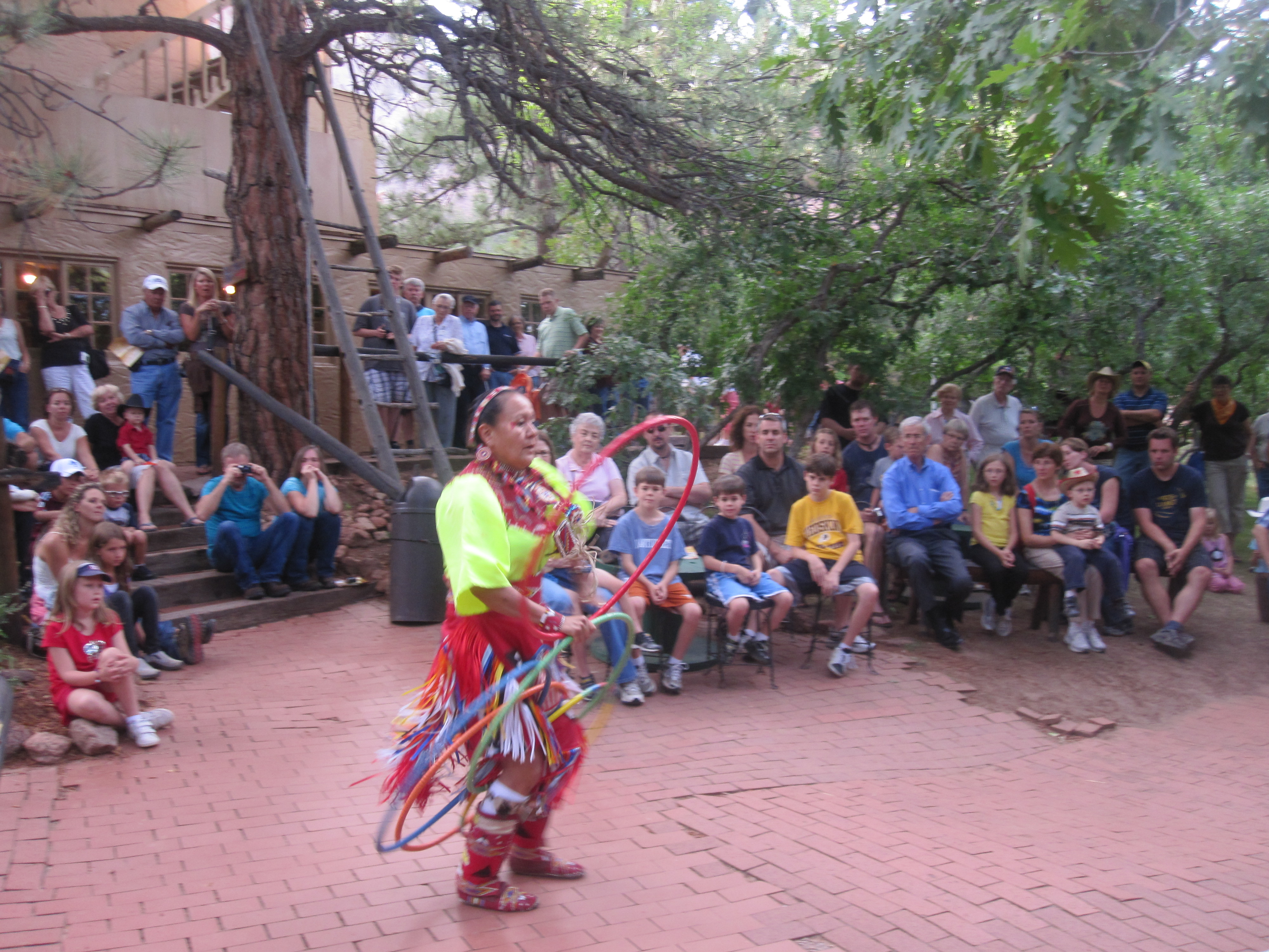 Indian show at Flying W Ranch. I took photo with Canon camera in CO Springs, CO.